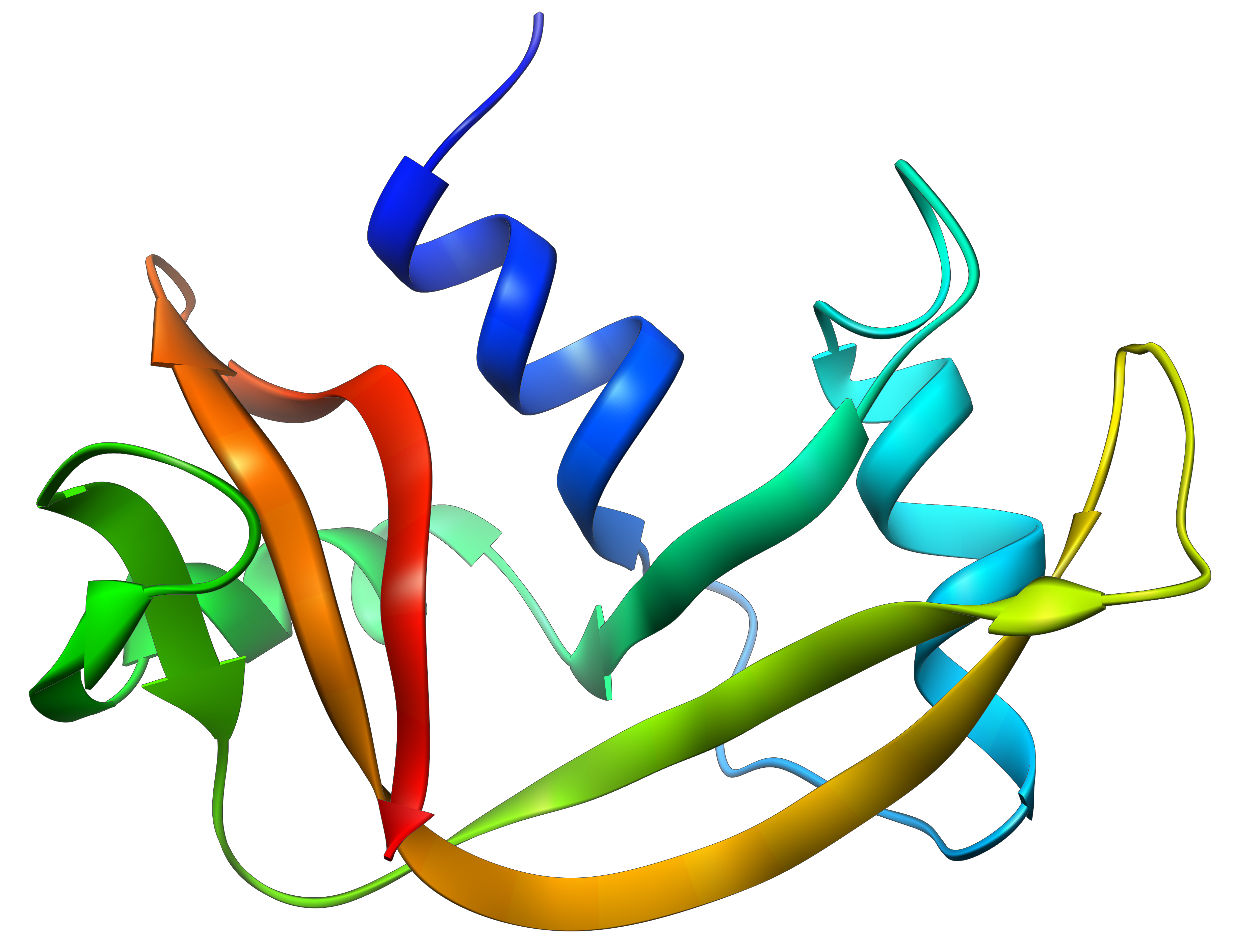 Structure of RNase A, PDB id 2AAS, generated using UCSF Chimera